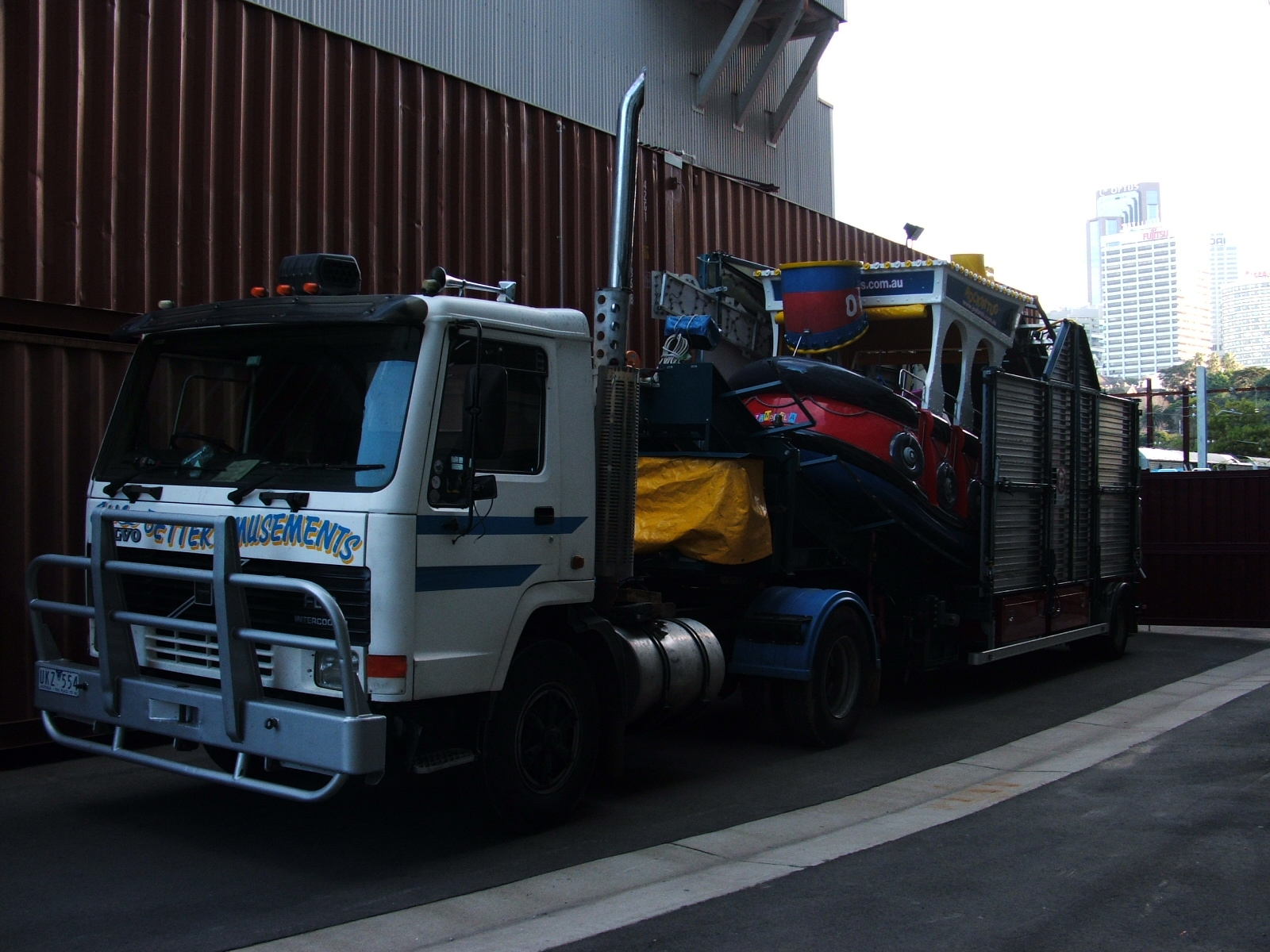 A Rockin' Tug amusement ride in the racked or transportable position